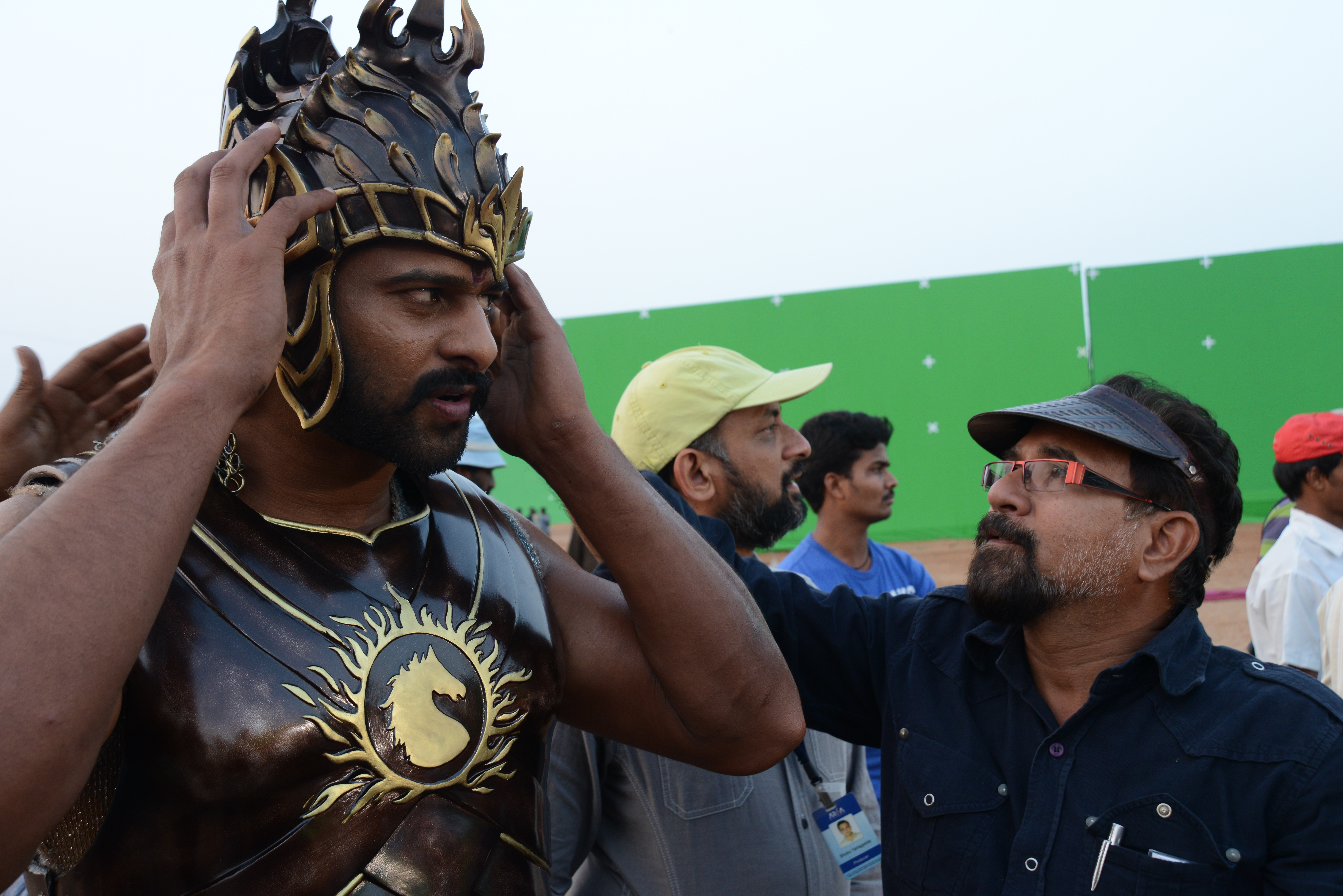 bahubali with prabas 1